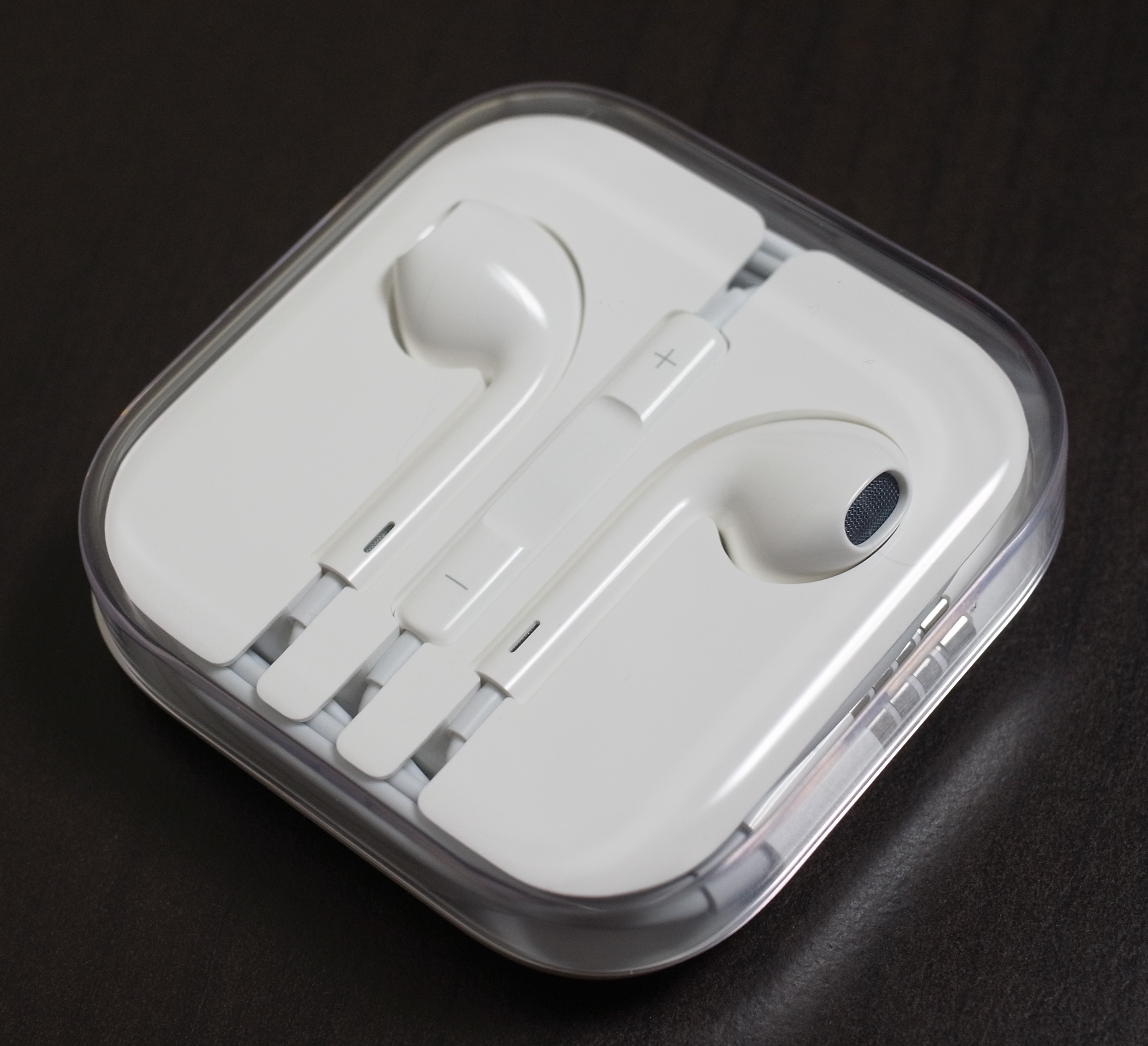 Apple EarPods